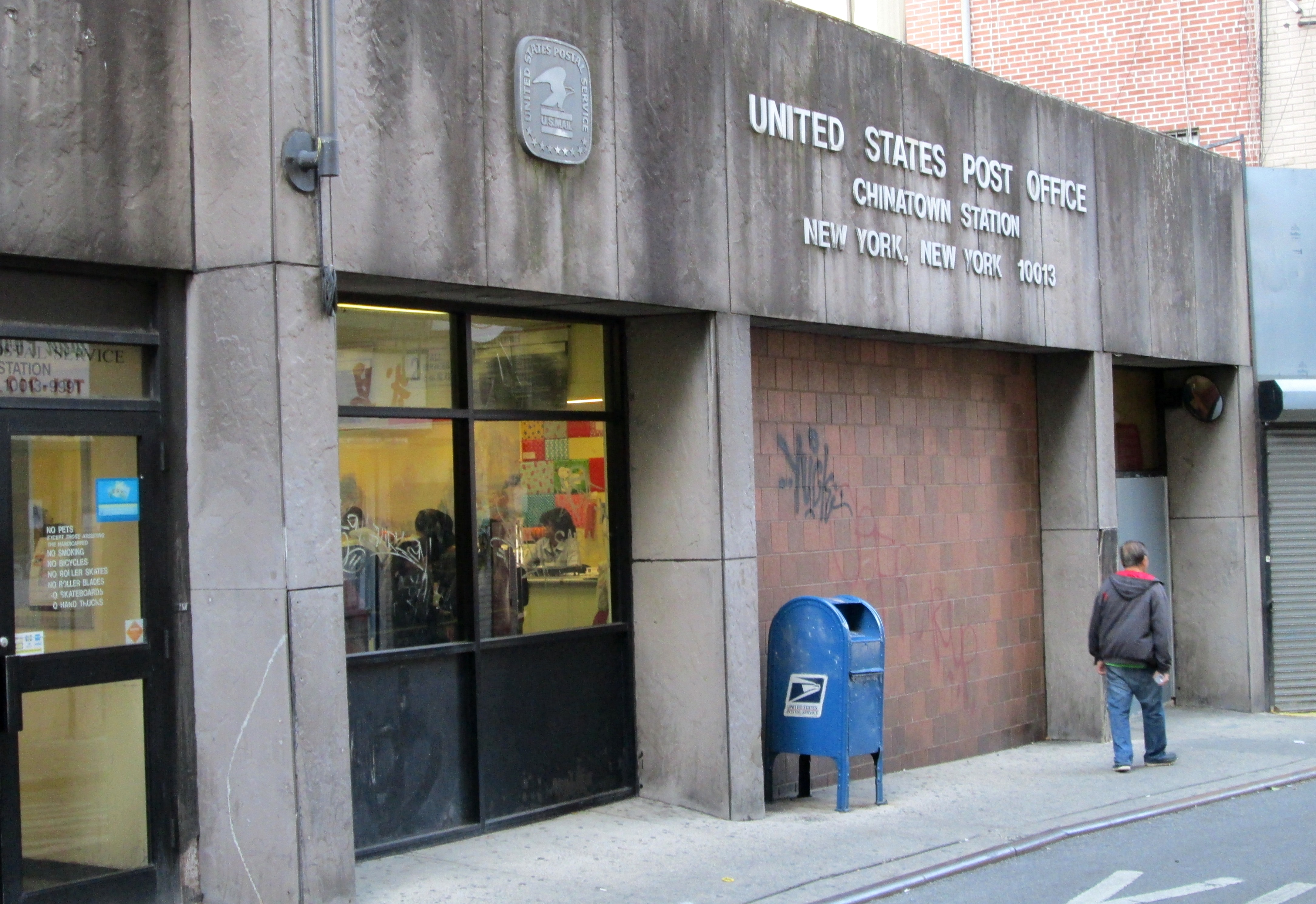 The United States Postal Service Chinatown Station at 6 Doyers Street in the Chinatown neighborhood of Manhattan, New York City, located between the Bowery and Pell Street